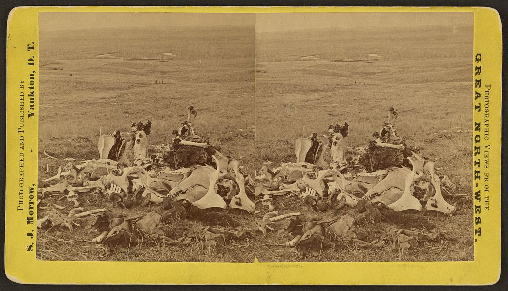 Gen'l Custer's last stand, looking in the direction of ford and Indian village. Photograph shows pile of bones found at battle site.